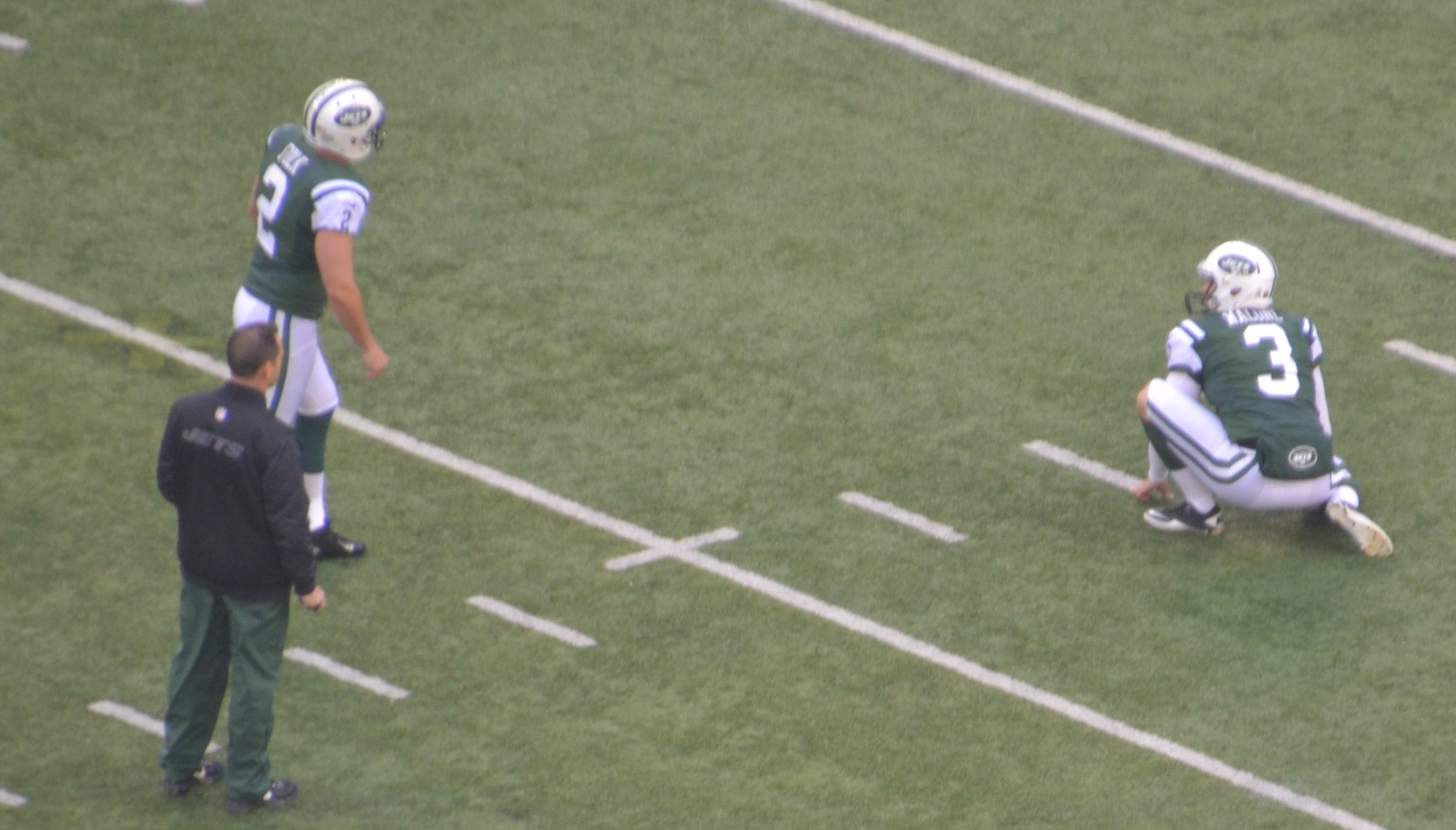 New York Jets placekicker Nick Folk and punter Robert Malone doing pre-game warm-ups in 2012.